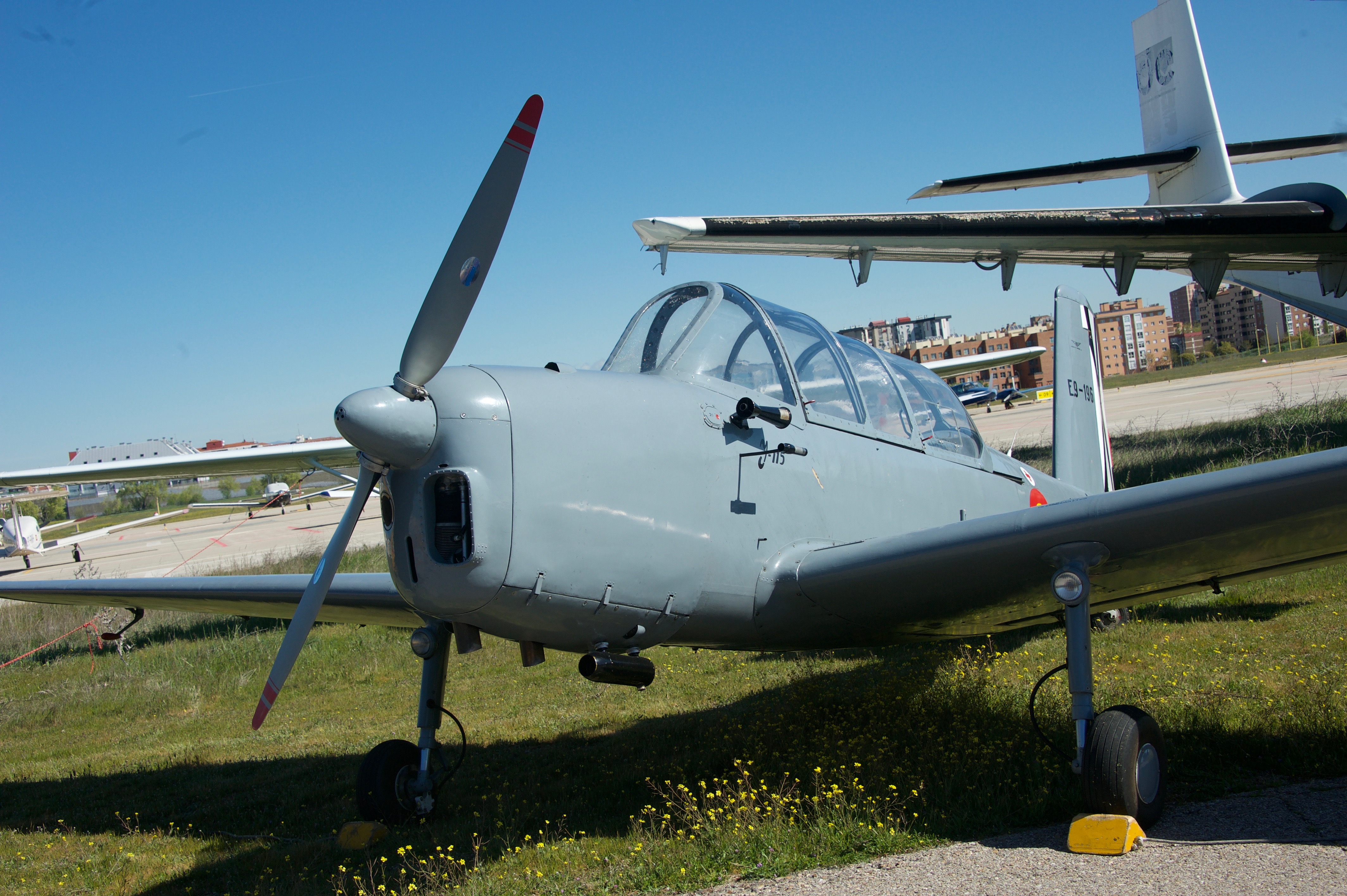 Taken at Principe de Orleans exhibition at Cuatro Vientos airport. Still flying well